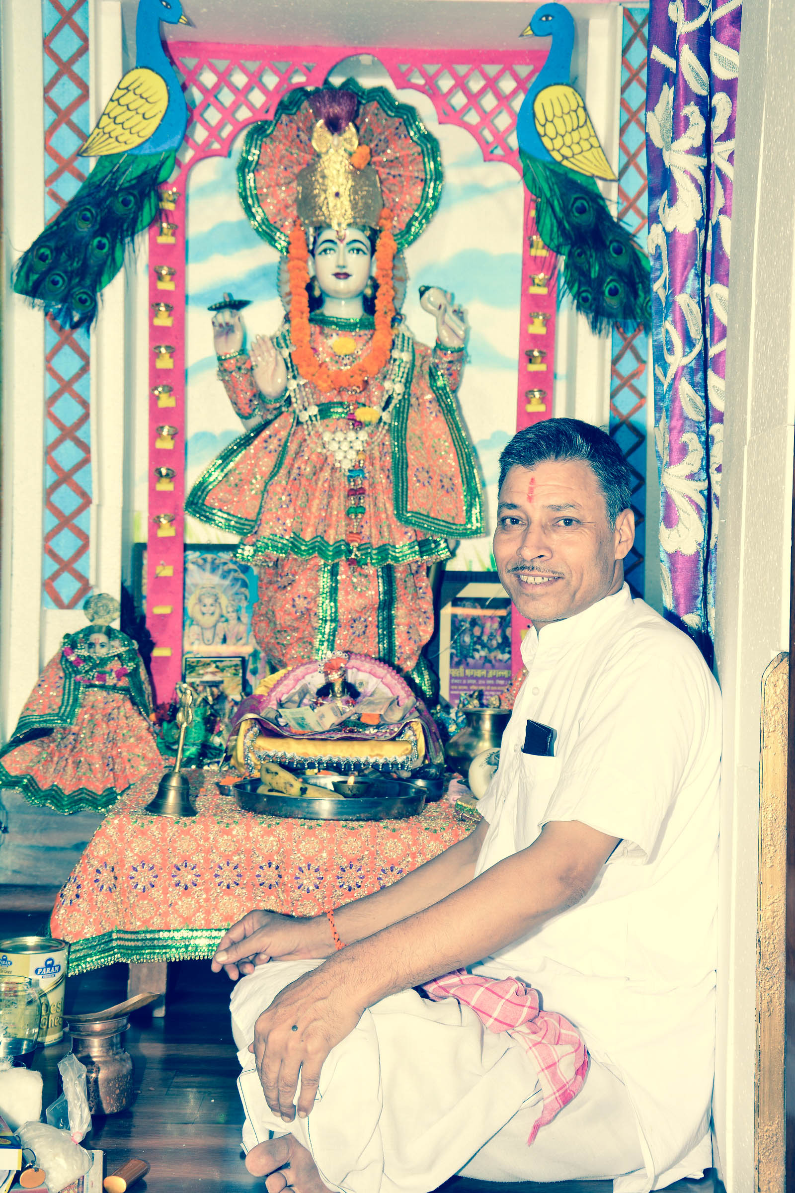 Pujari Of Saty Narayan Mandir, Nabha